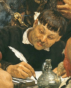 Portrait of D. Yavornitskii - Fragment of "Reply of the Zaporozhian Cossacks to Sultan Mehmed IV of Turkey" by Ilya Repin (1880-1891). Iliya Repin pictured the famous Ukrainian historical writer D. Yavornitskii as a clerk here